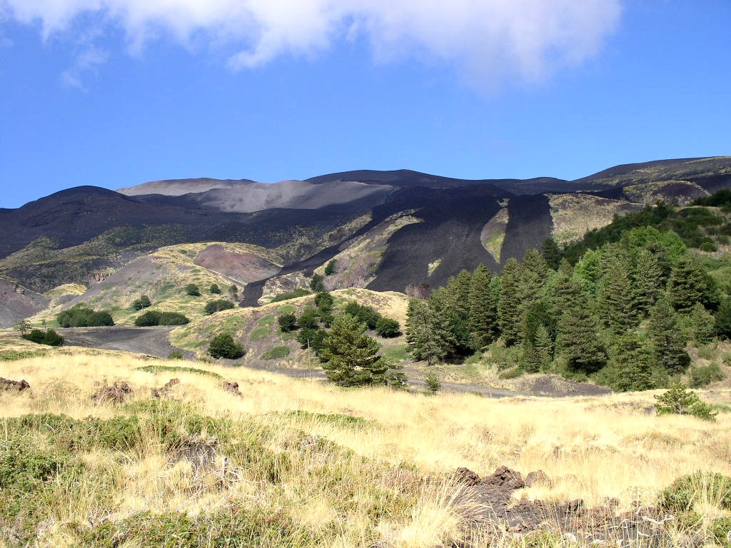 Etna, Sicily, Catania, Italy Vegetation on the slopes of Etna